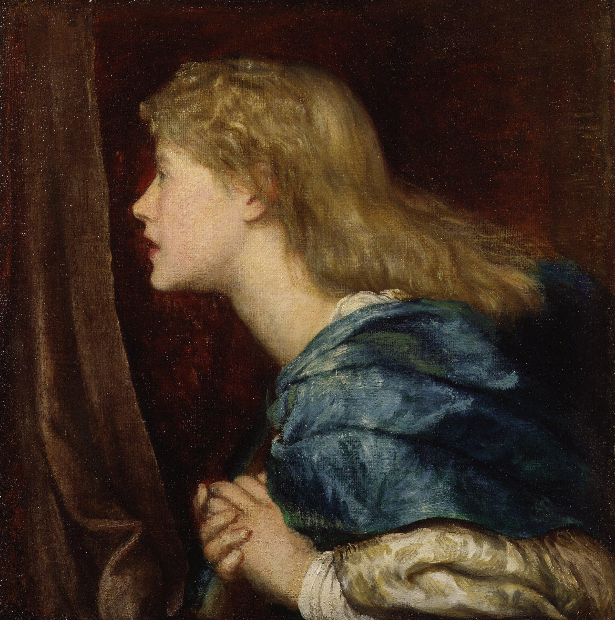 Dame (Alice) Ellen Terry, by George Frederic Watts (died 1904). All images in this batch have been confirmed as author died before 1939 according to the official death date listed by the NPG.